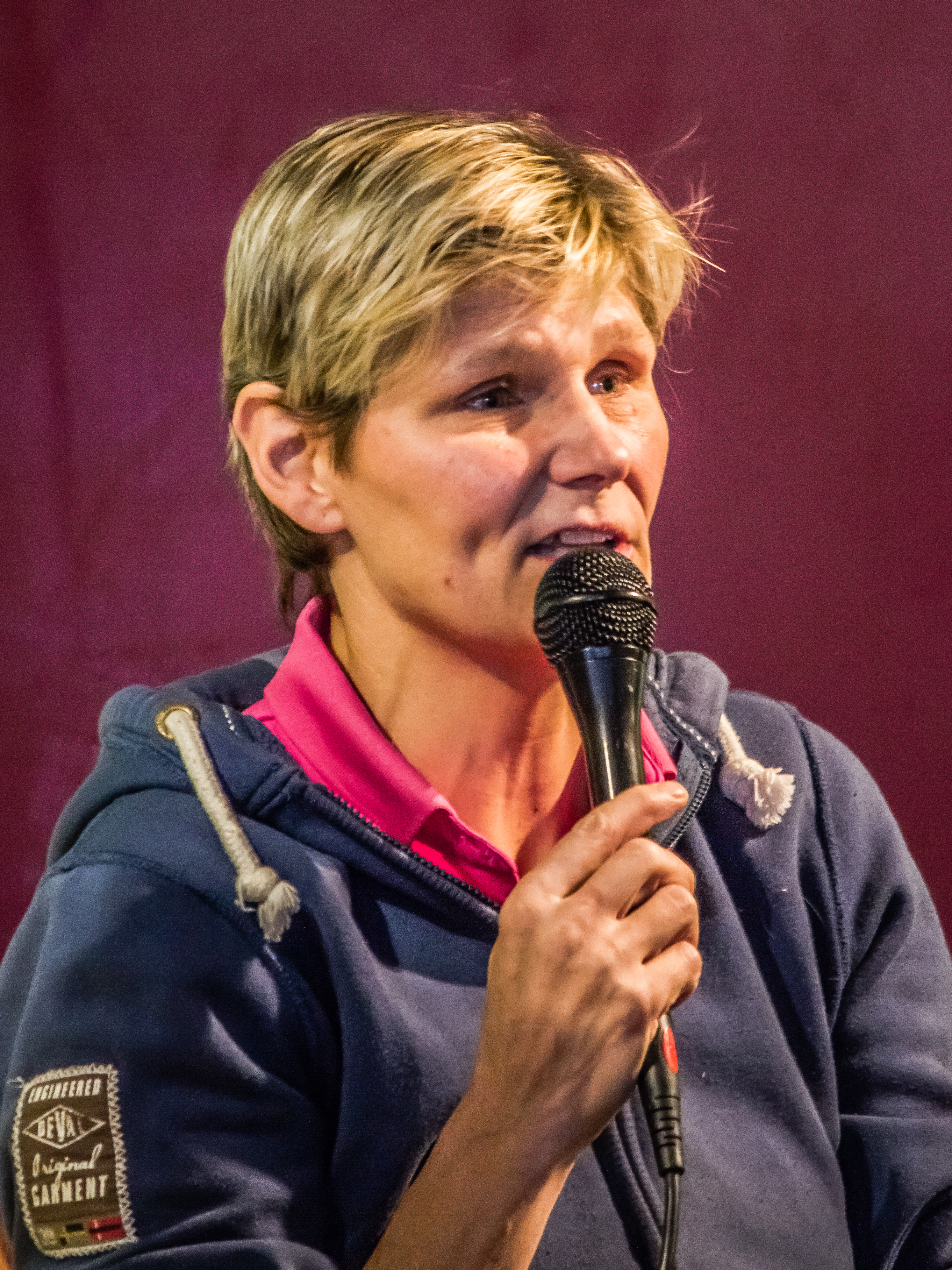 Anna Frithioff at Folkets hus, Säter, Dalarna County, Sweden.